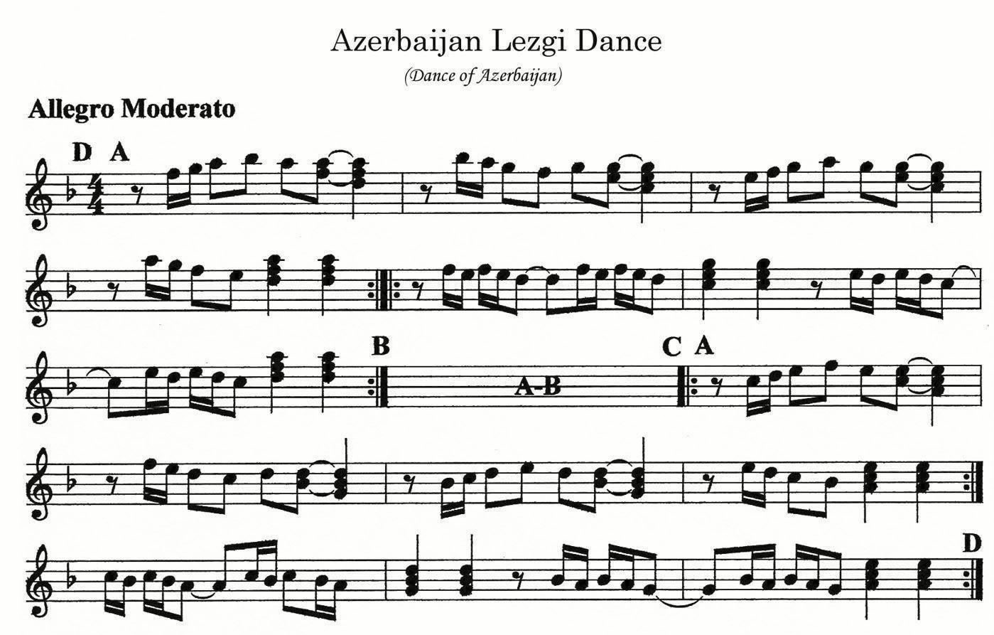 National folk dances of Lezgi - Lezginka